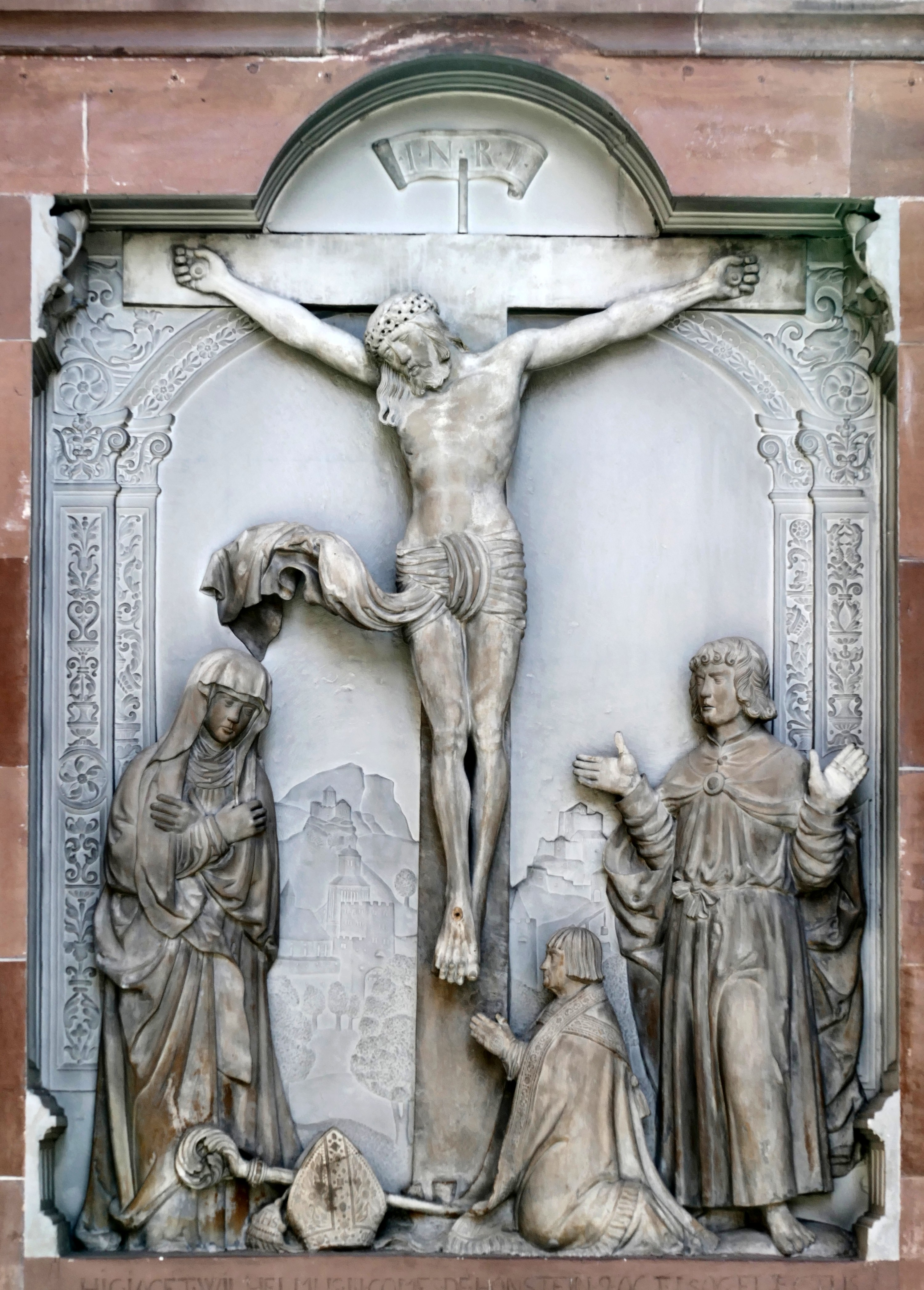 Alsace, Bas-Rhin, Saverne, Église Notre-Dame-de-la-Nativité (PA00084954, IA00055464). Dalle funéraire de l'évêque de Strasbourg Guillaume de Honstein (XVIe): This object is classé Monument Historique in the base Palissy, database of the French furniture patrimony of the French ministry of culture, under the references PM67000292 and IM67004254.